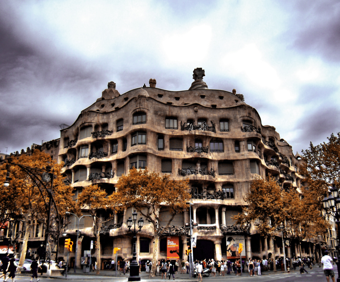 La pedrera desde el Passeig de Gràcia